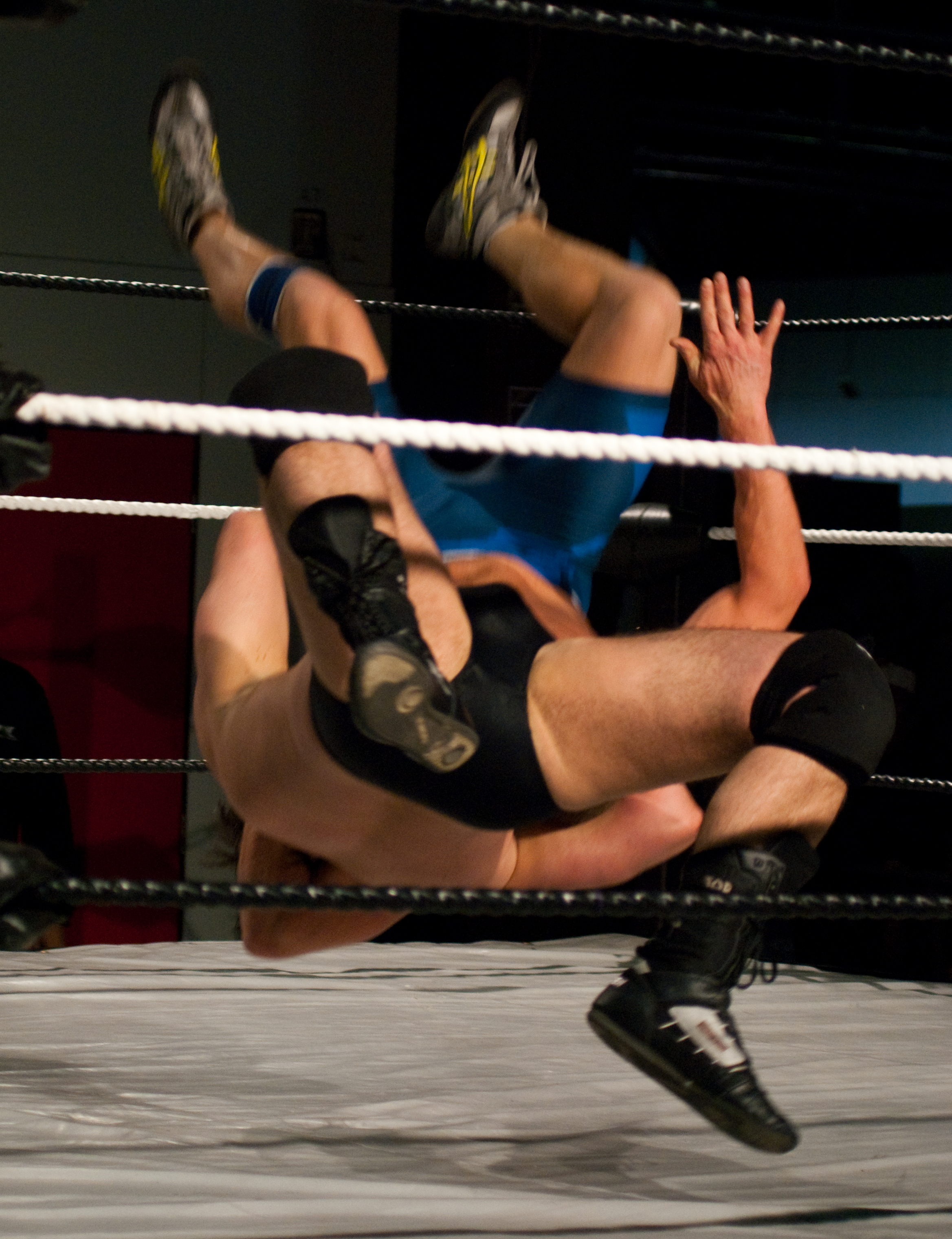 IPW wrestling in Armageddon Expo 2009. Location: ASB Showgrounds, Auckland, NZ